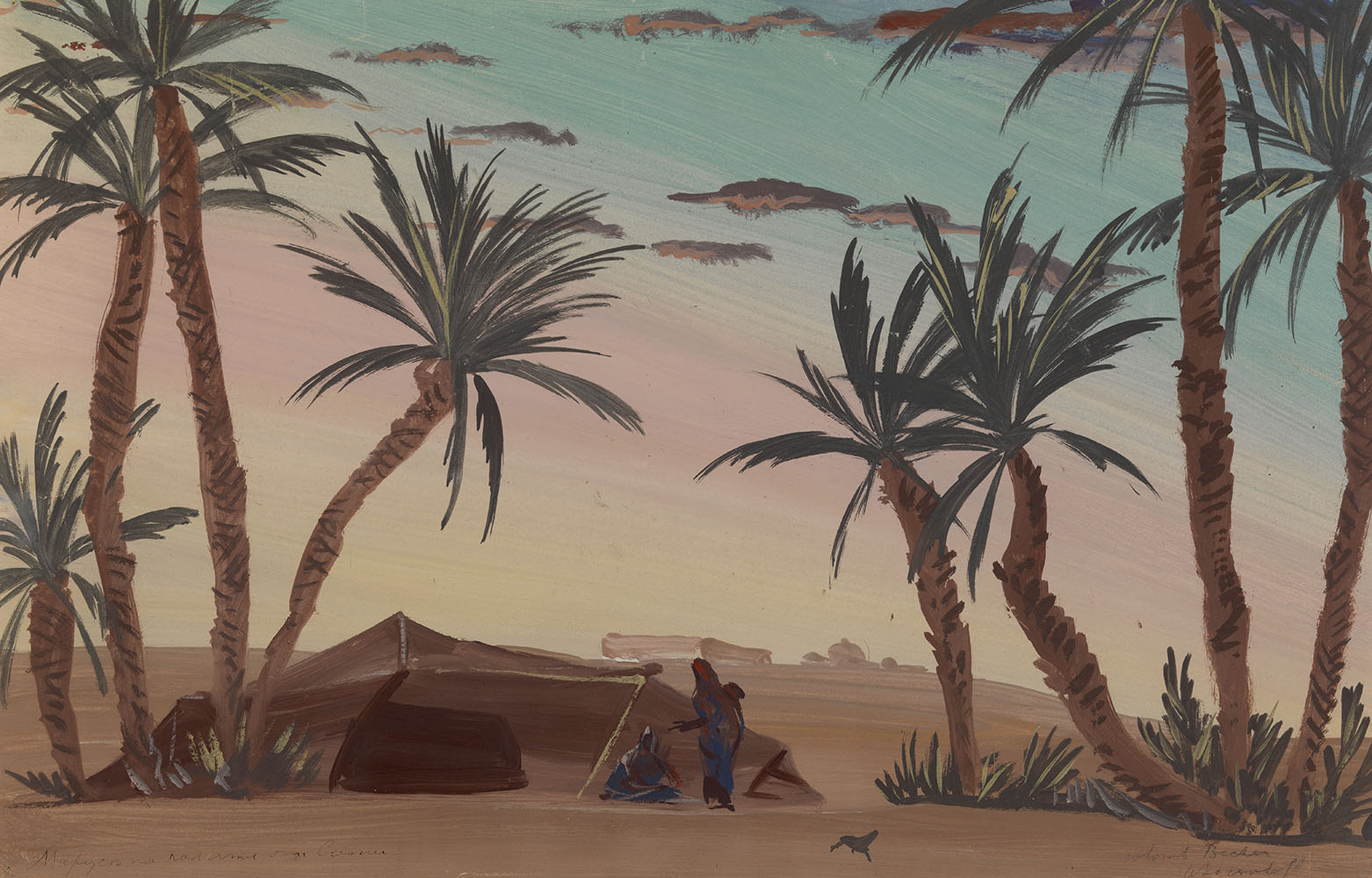 YAKOVLEV, ALEXANDER. View of Colomb-Behar, Algeria, Gouache on paper, 32 by 48.5 cm. 20,000-30,000 pounds